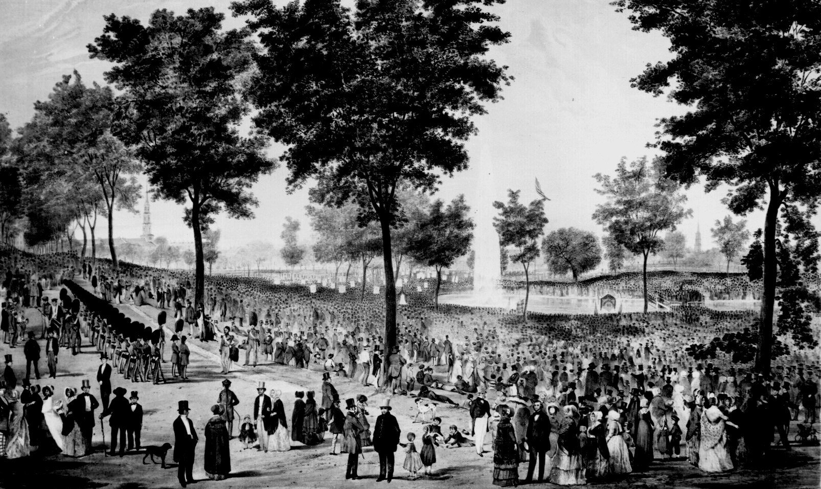 "View of the Water Celebration, on Boston Common, October 25th 1848." Lithograph by P. Hyman and David Bigelow. source